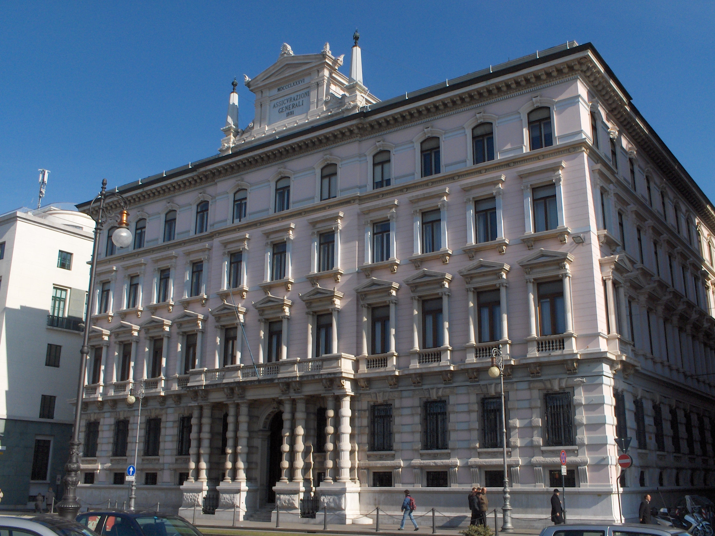 Palazzo Generali, Headquarter Assicurazioni Generali Company, Trieste, Friuli-Venezia Giulia, Italia